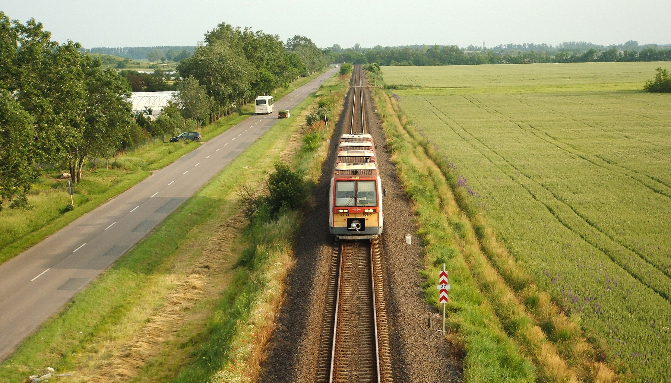 Bpmot class Russian-made diesel multiple unit (nicknamed "Uzsgyi") heading from Hódmezővásárhely to Szentes in Hungary on the MÁV line 130. The photograph was taken from the flyover of the road 451 near Szentes.